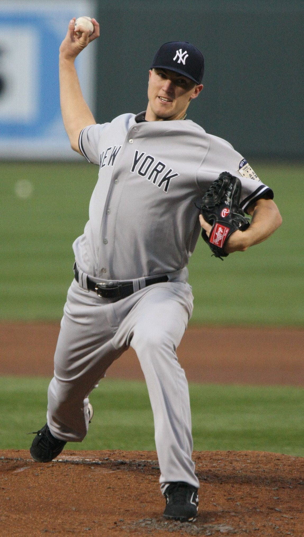 Phil Hughes pitching on April 18, 2008 against the Baltimore Orioles